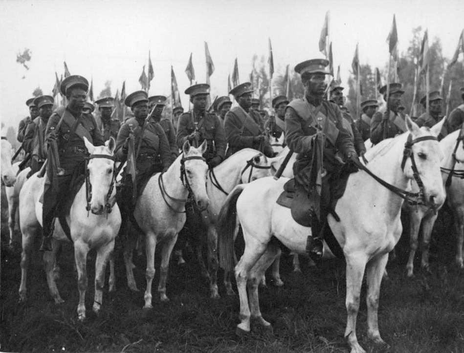 Abyssinian soldiers, 1936.The Second Italo-Ethiopian War, also referred to as the Second Italo-Abyssinian War, was a colonial war that started in October 1935 and ended in May 1936. The war was fought between the armed forces of the Kingdom of Italy and the armed forces of the Ethiopian Empire (also known at the time as Abyssinia). The war resulted in the military occupation of Ethiopia.